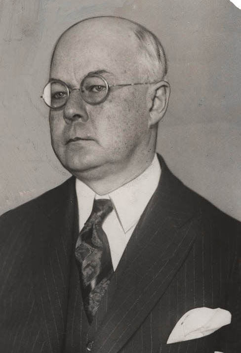 Photograph of Frank Navin, circa 1920